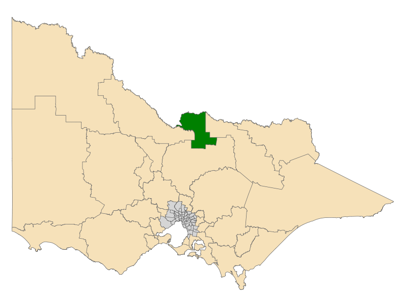 Location of the Electoral District of Shepparton (dark green) in the state of Victoria, Australia. These boundaries were used for the Victorian state election on 29 November 2014.